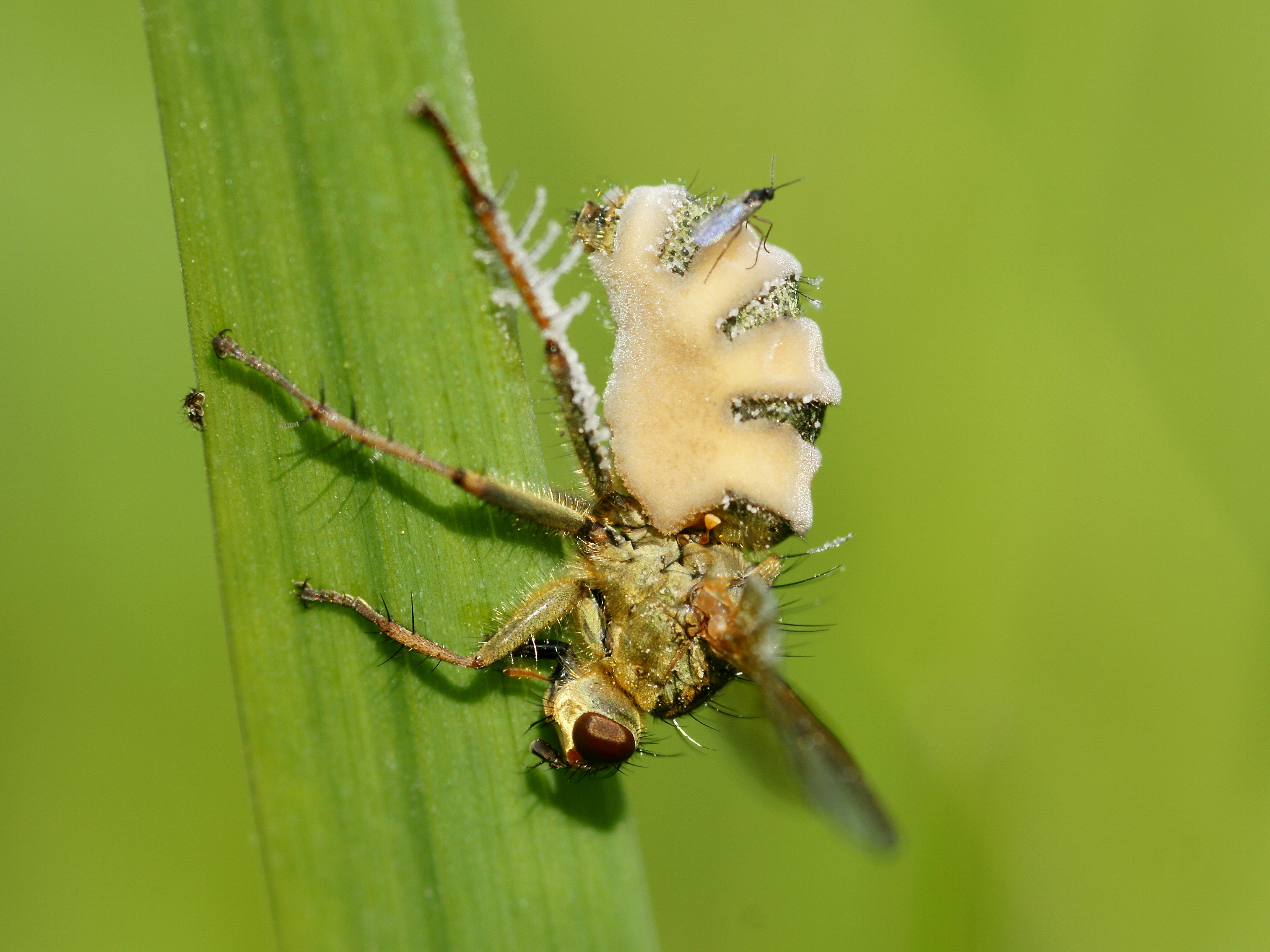 Fly fungus on Common yellow dung fly at Oostende, Belgium